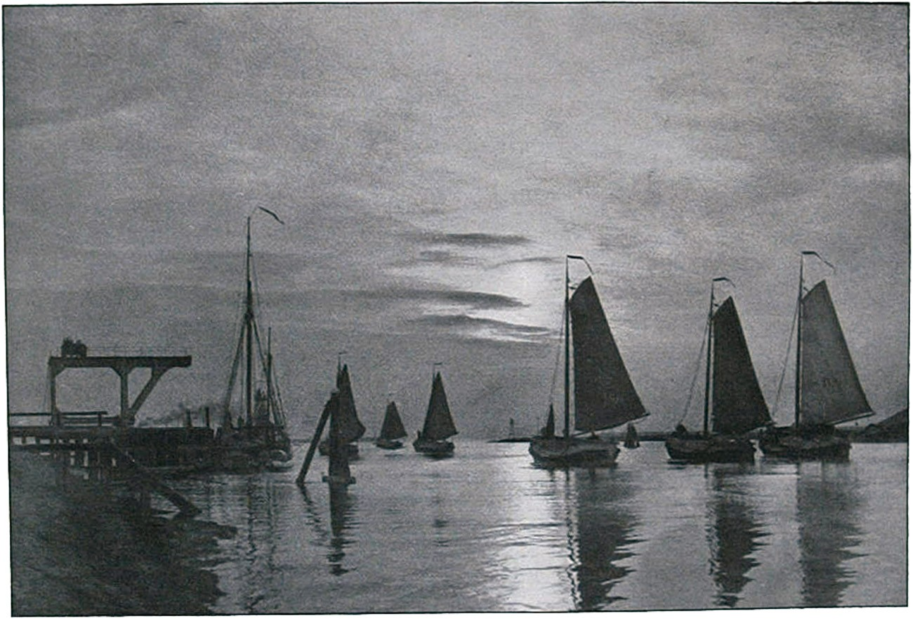 Im Fisherhafen